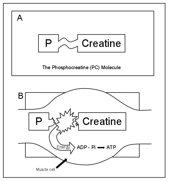 The energy released from the breakdown of phosphocreatine is coupled with the energy requirement to resynthesize ATP.